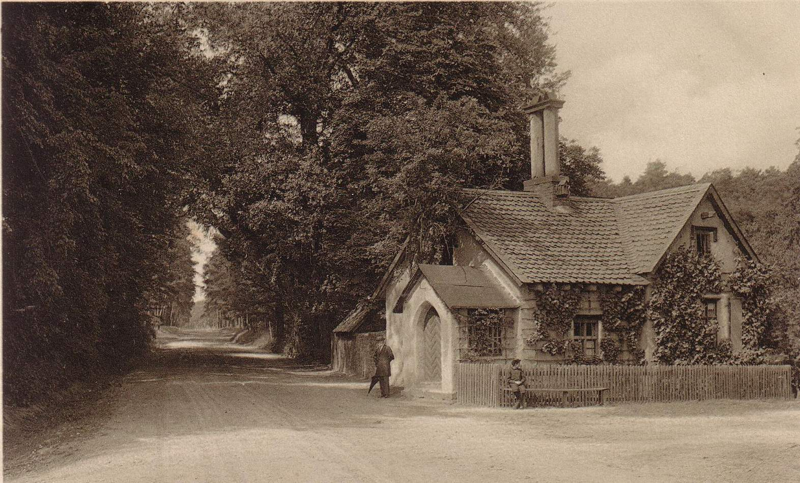 Small building in the Hundisburg-Althaldensleben park